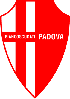 This is a logo for S.S.D. Biancoscudati Padova.